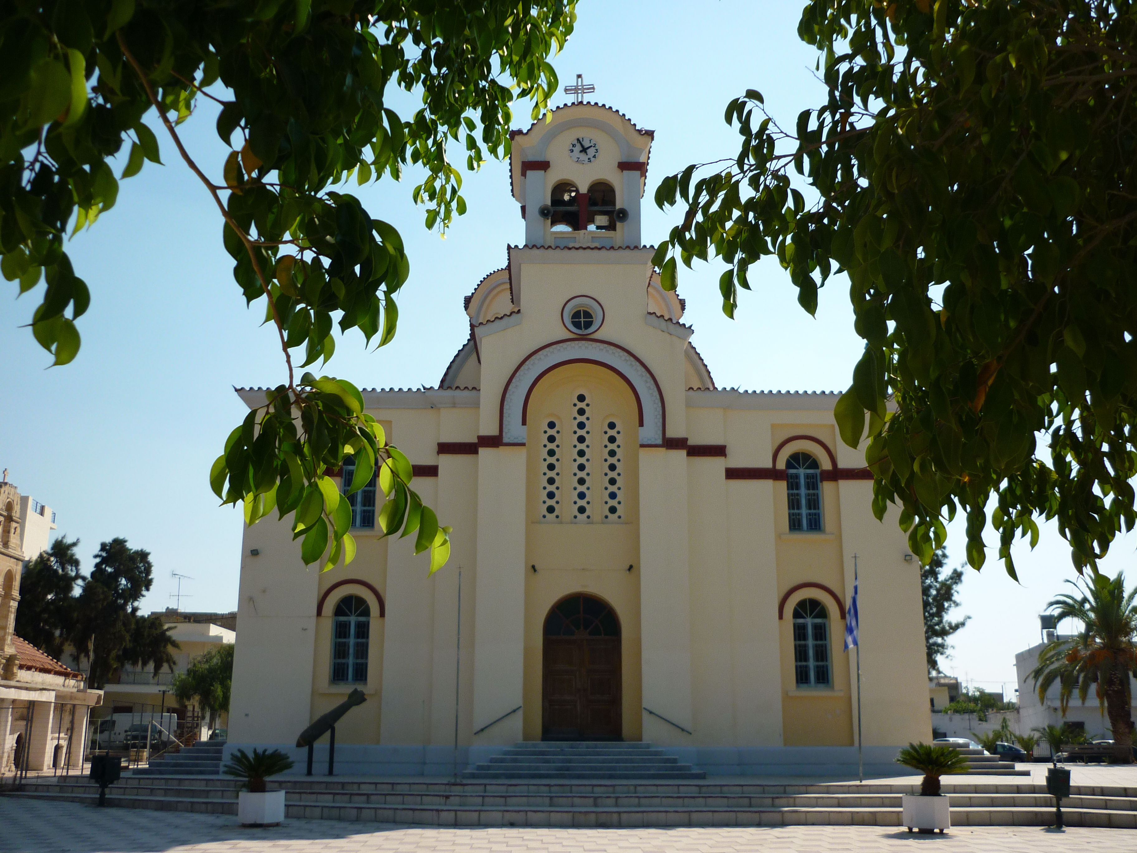 New Agios Titus church in Tymbaki, Crete, Greece.